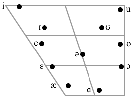 IPA vowel chart for Hindi.